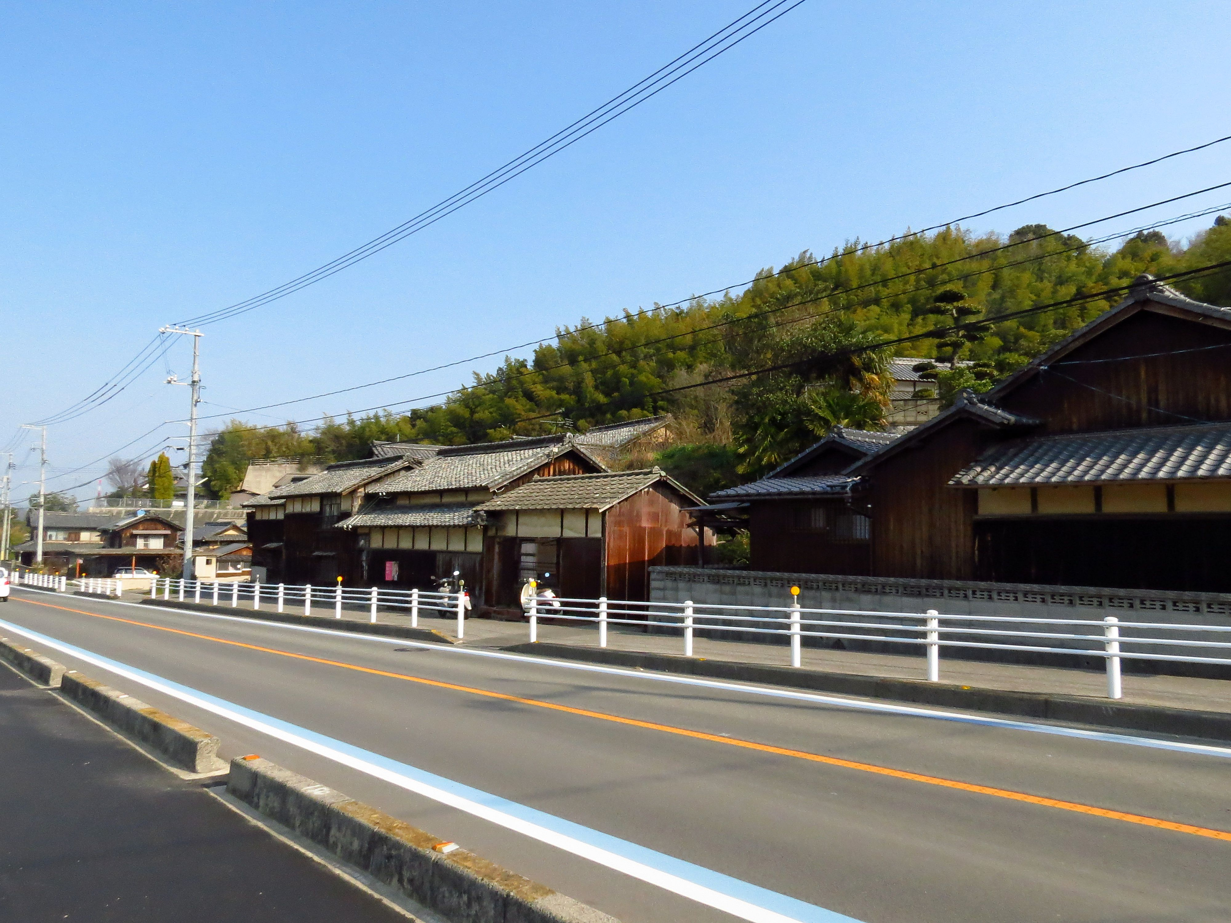 Yoshiumichōmyō, Imabari-shi